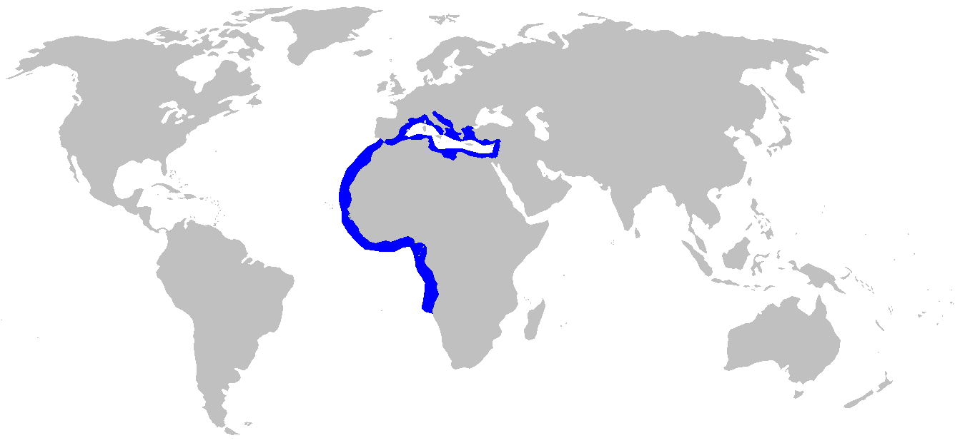 Distribution map for Squatina oculata